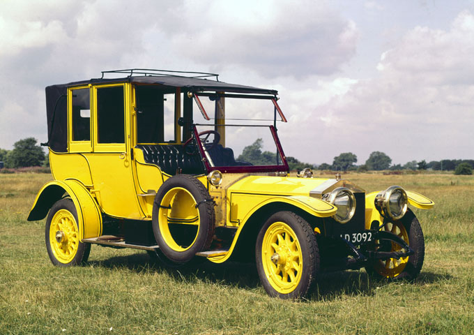 1909 Rolls-Royce Silver Ghost Open drive landaulette body by HooperUsed by the Marquess of Chomondely until 1929An object from the collections of the Science Museum (London) as copied from their ObjectWiki.